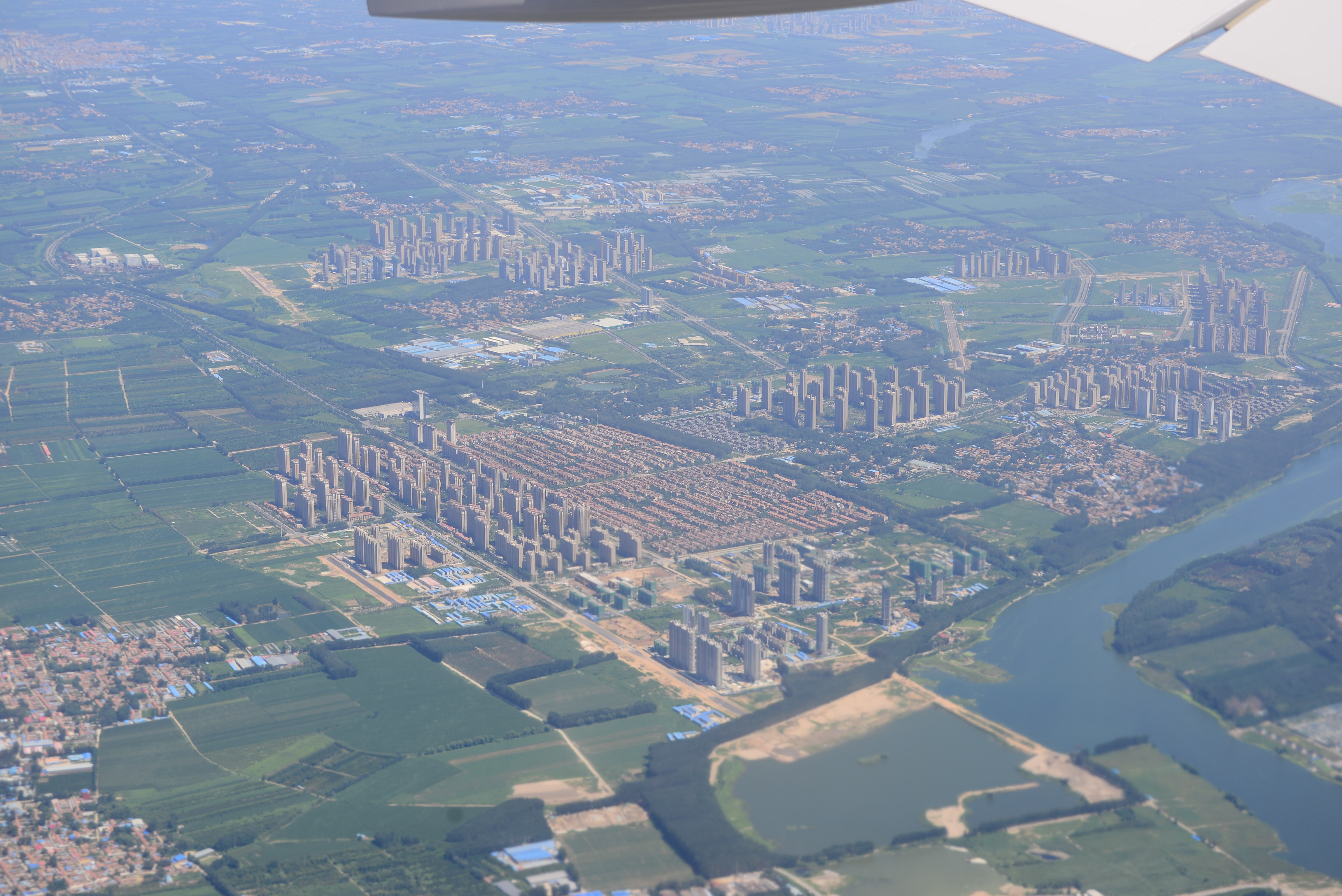 On the final to Beijing Capital Airport. The area (outside the city) is covered by tall residential buildings.